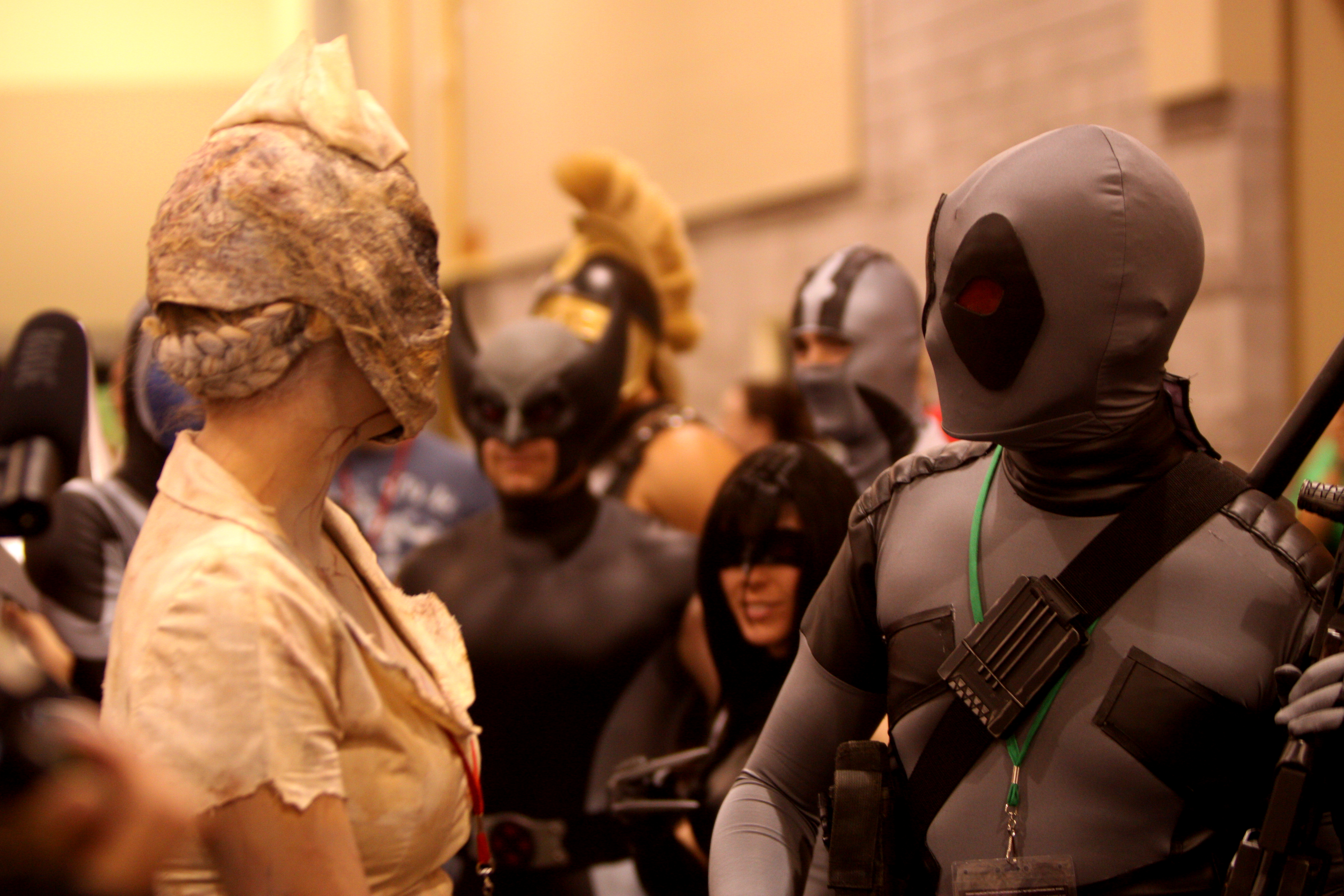 Cosplay of a Silent Hill nurse and X-Force-uniform Deadpool (with other members of X-Force in the background) at the 2012 Phoenix Comicon in Phoenix, Arizona.